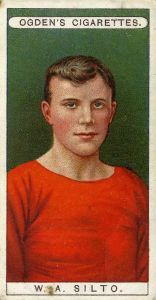 Vintage Football Cigarette Card of England Centre Back William 'Billy' Silto